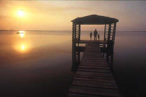 Laguna Blanca observation platform within the Río Pilcomayo National Park.